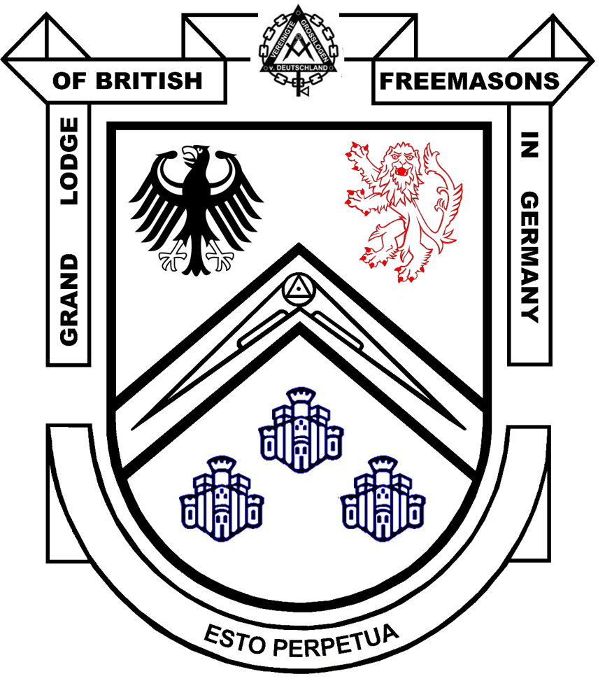 Seal of Grand Lodge of British Freemasons in Germany. The EAGLE symbolizes Germany, the LION Great Britain. The THREE CASTLES are to remind us of the original Provincial Grand Lodge of British Freemasons in Germany. ESTO PERPETUA means “May it last forever”.